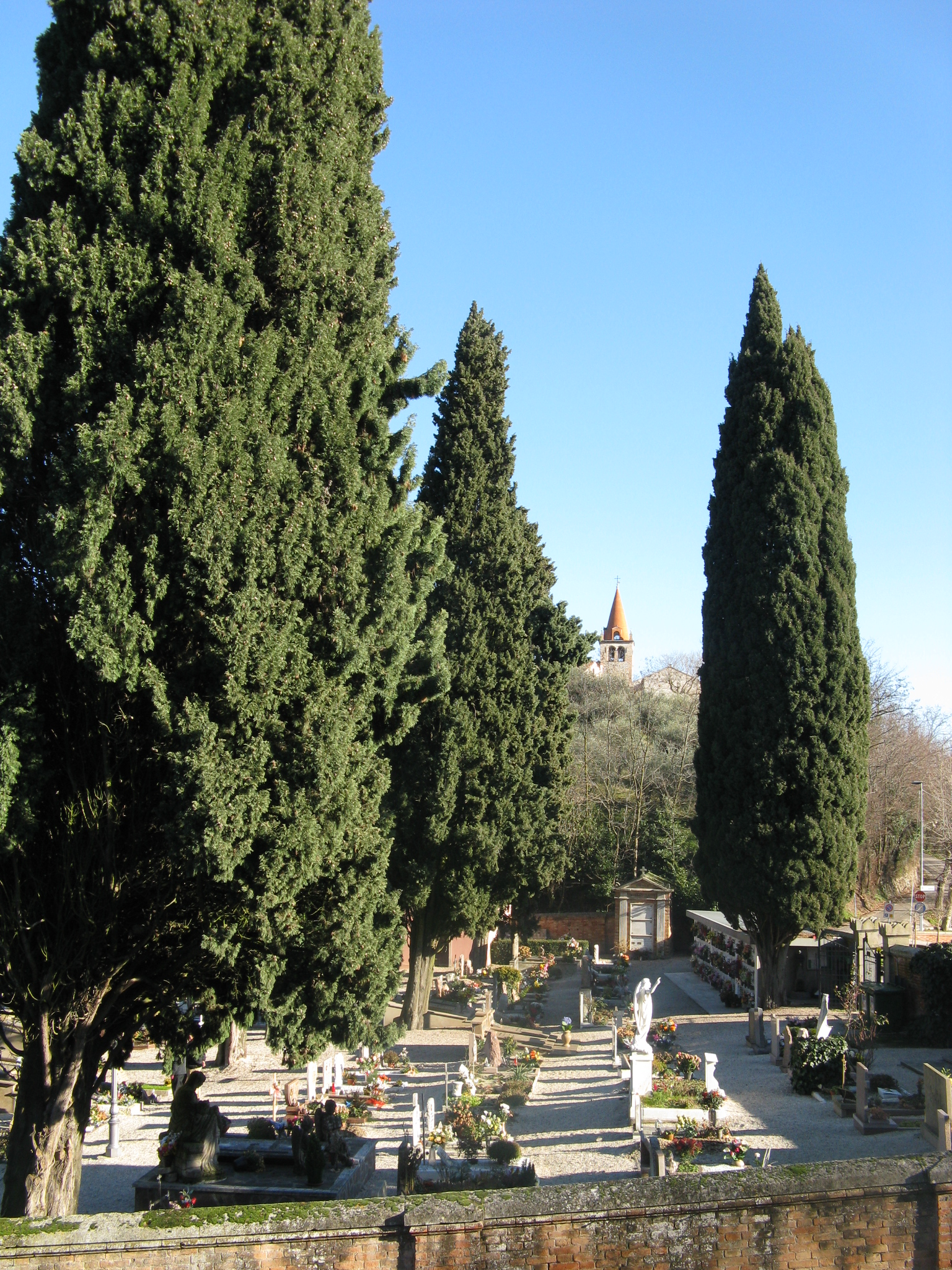 Torreglia Alta (Veneto/Italy), cimitery and church San Sabino